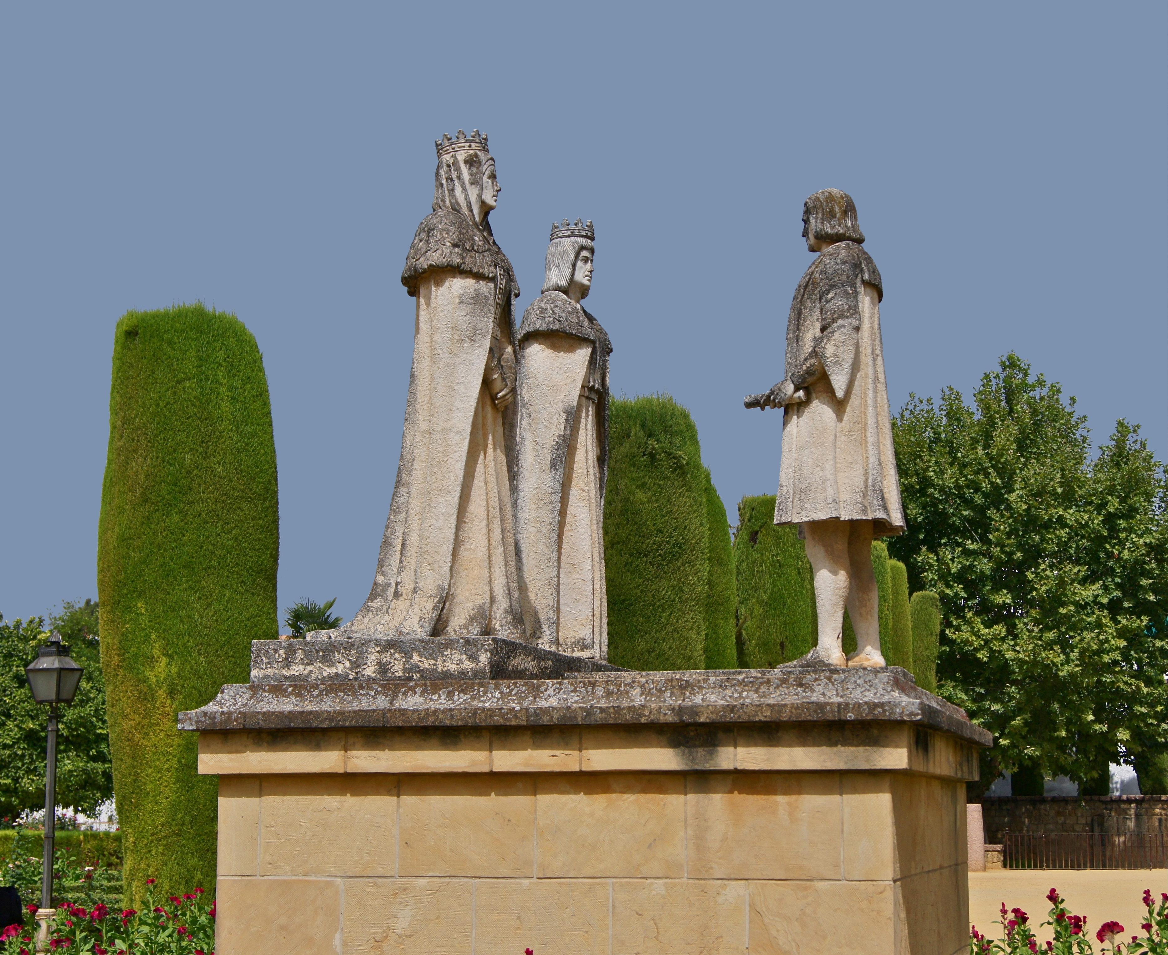 Isabel of Castile, Fernando of Aragon, and Christopher Columbus, statues in the garden of the Alcazar of Cordoba, Spain.